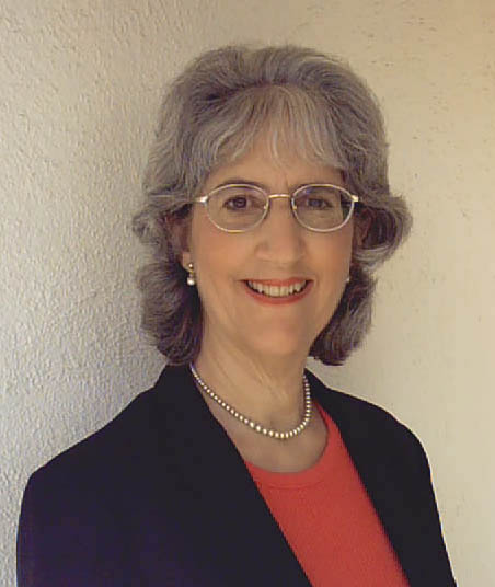 Photo of Aletha Solter, Ph.D.